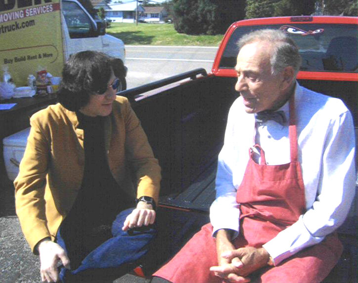 Herchell Gordon Lewis (right) and Rock Savage on the set of Chainsaw Sally.